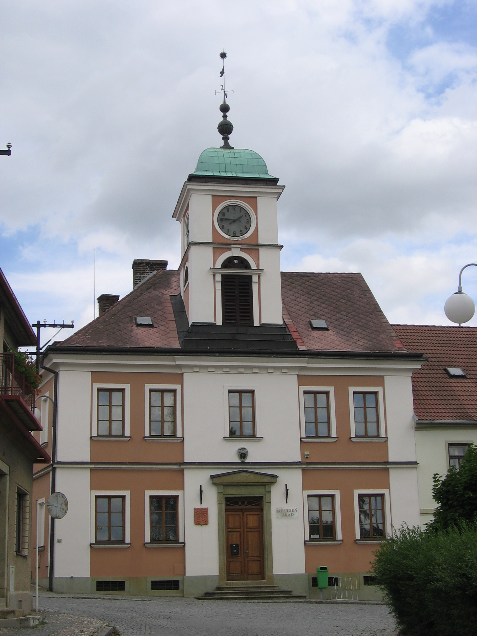 Town Hall in Solnice (Czech Republic)